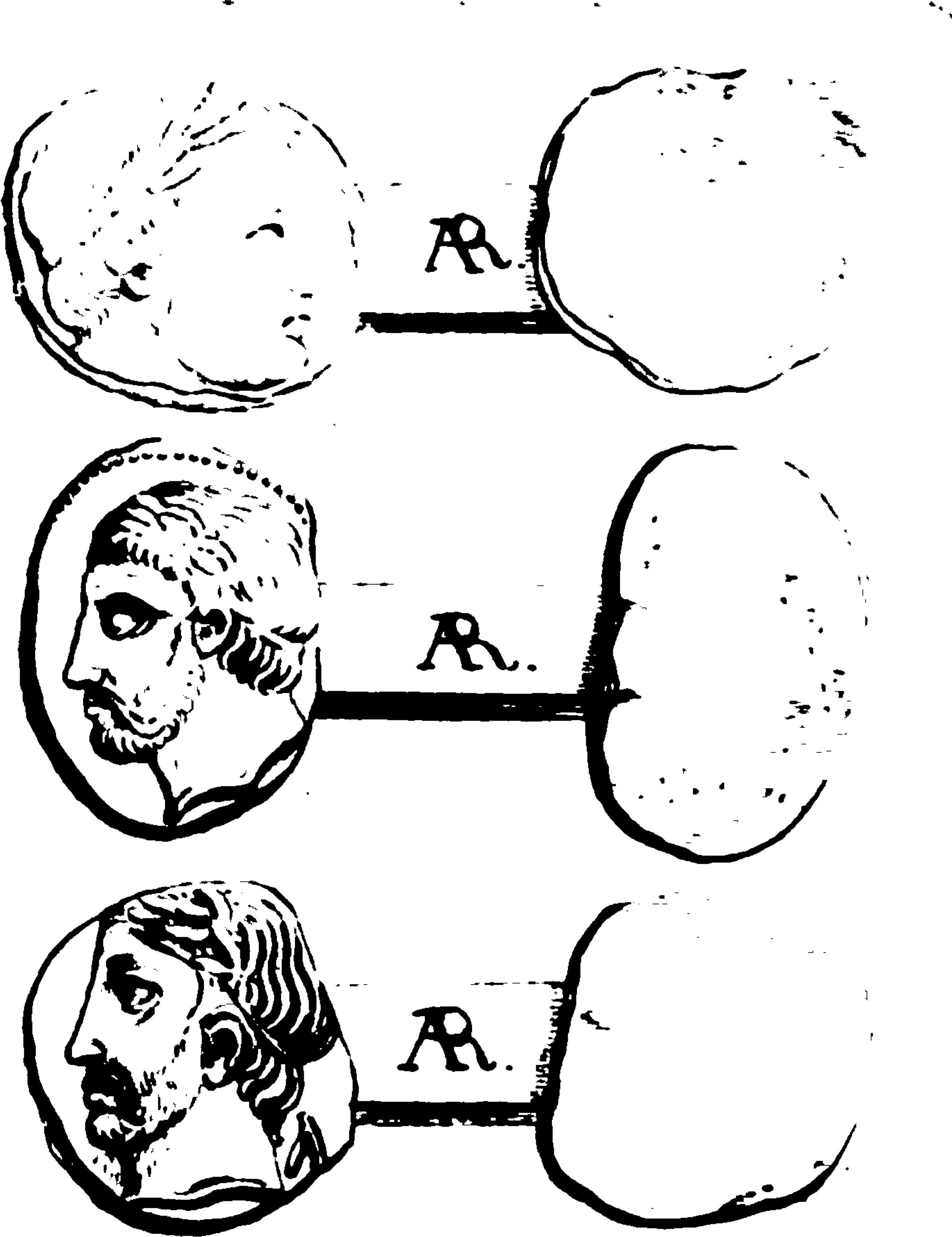 Table from "Lettera di Sebastiano Ciampi sopra tre medaglie etrusche in argento"